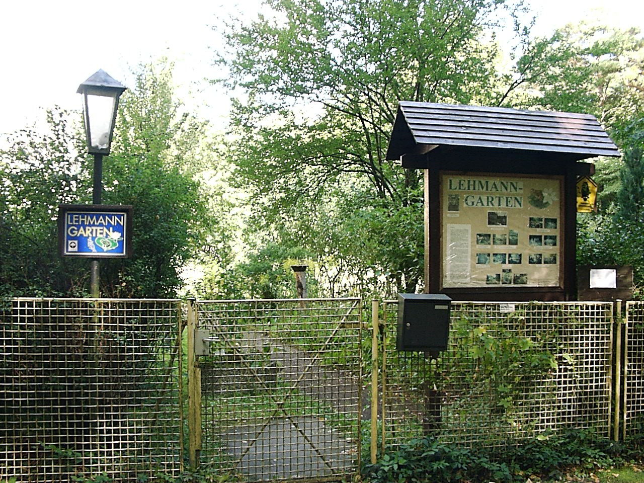 Botanical garden "Lehmann Garden" at Joachimsthalsches Gymnasium in Templin, Brandenburg, Germany.